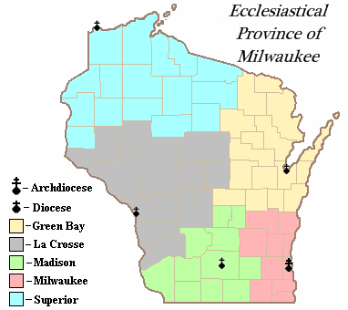 Roman Catholic Ecclesiastical Province of Milwaukee. Also shown are the boundaries of the archdiocese of Milwaukee, the Diocese of Green Bay, the Diocese of La Crosse, the Diocese of Madison, and the Diocese of Superior.